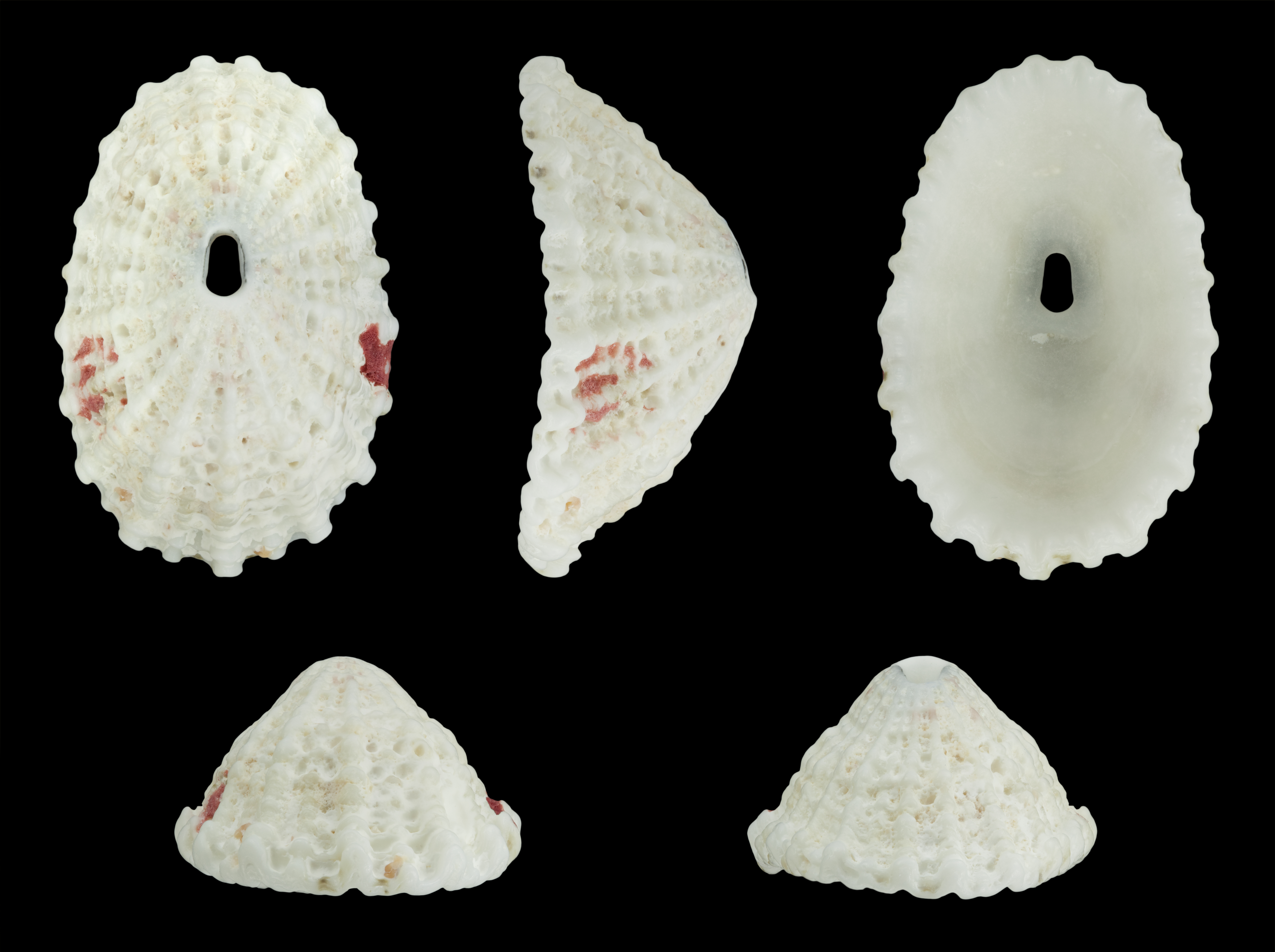 Diodora listeri (d'Orbigny, 1847), Lister's Keyhole Limpet; Length 3.3 cm; Originating from Cuba; Shell of own collection, therefore not geocoded.